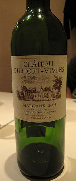 Bottle of the red French wine from Bordeaux.